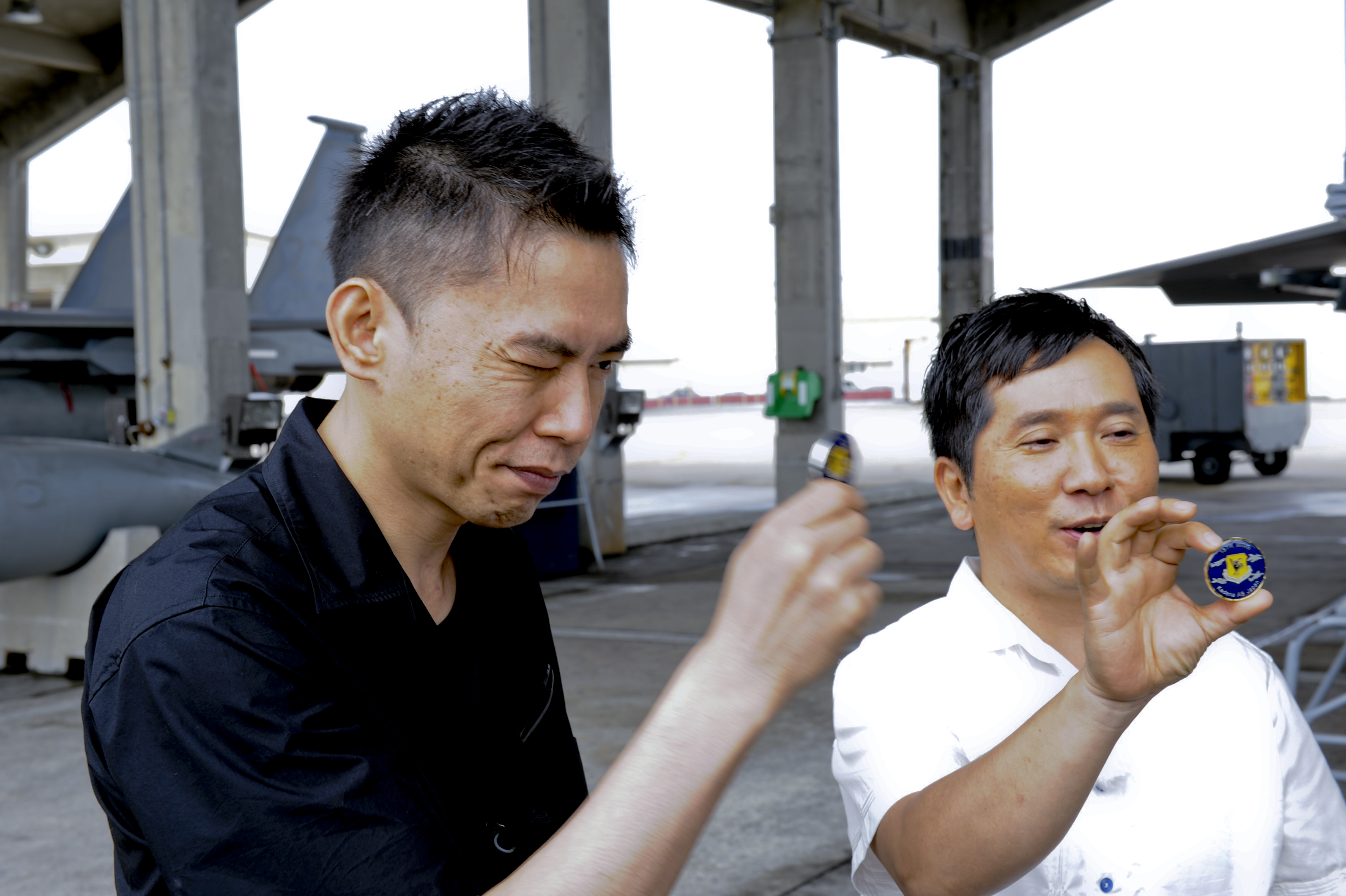 Hikari Ota (left) and Yuji Tanaka (right), hosts of the Japanese show Tanken Bakumon (Deep Inside), admire coins given to them by the 18th Wing Commander, Brig. Gen. Matthew Molloy, on Kadena Air Base, Japan, June 1, 2012. The comedic pair came to Kadena to film the latest episode of their new show, which allows them to show the populace a tour of a unique or access-restricted location. (U.S. Air Force photo/ Airman 1st Class Brooke P. Beers)